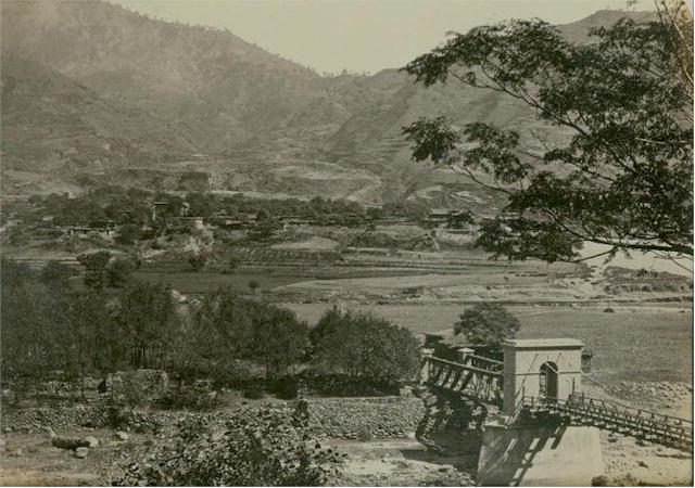 Chamba Valley, Himachal Pradesh, c1865.